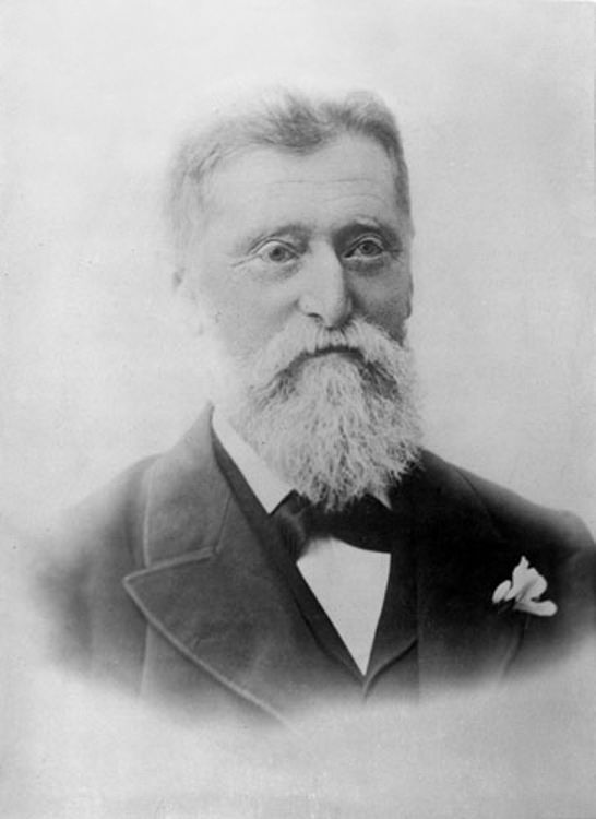 Photograph of Thomas Kirk (1828-1898), New Zealand botanist